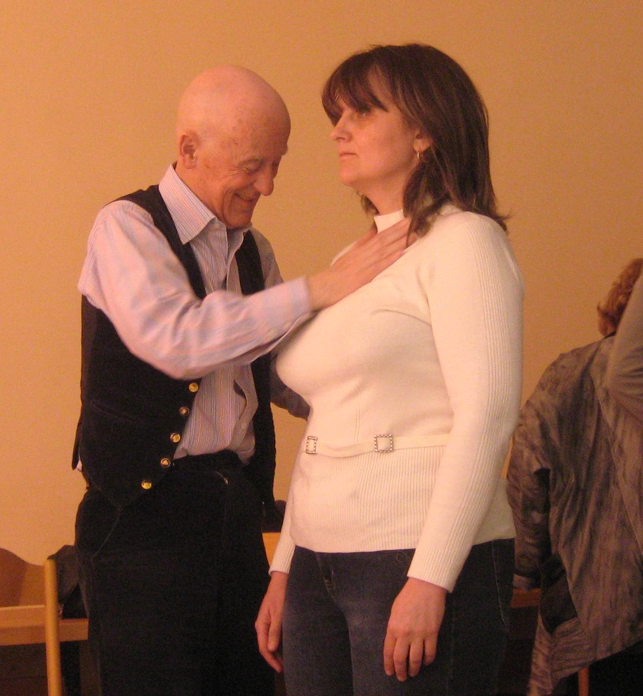 Clive Harris is a Polish man who did "bioenergy" faith healing. (Not to be confused with the soap opera character played by a British actor.)